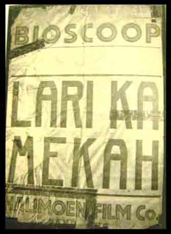 Original film poster for the film Lari ke Arab ("Escape to Arabia") (1930). The original title Lari ke Mekah ("Escape to Mecca") was rejected as possibly insulting to Muslims.